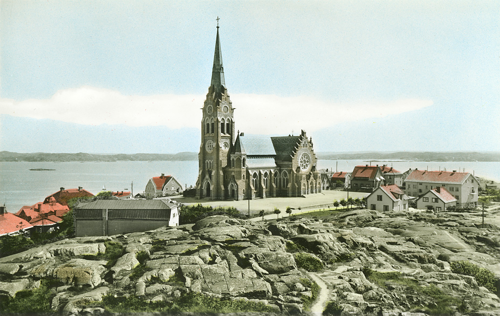 Lysekil church, built in 1899-1901 in neo-Gothic style. Lysekils kyrka, byggd 1899-1901 i nygotisk stil. Parish (socken): Lysekil Province (landskap): Bohuslän Municipality (kommun): Lysekil County (län): Västra Götaland Photograph by: Unknown. Almquist & Cöster Date: 1940-1959 Format: Original postcard, tinted Persistent URL: Read more about the photo database (in english)